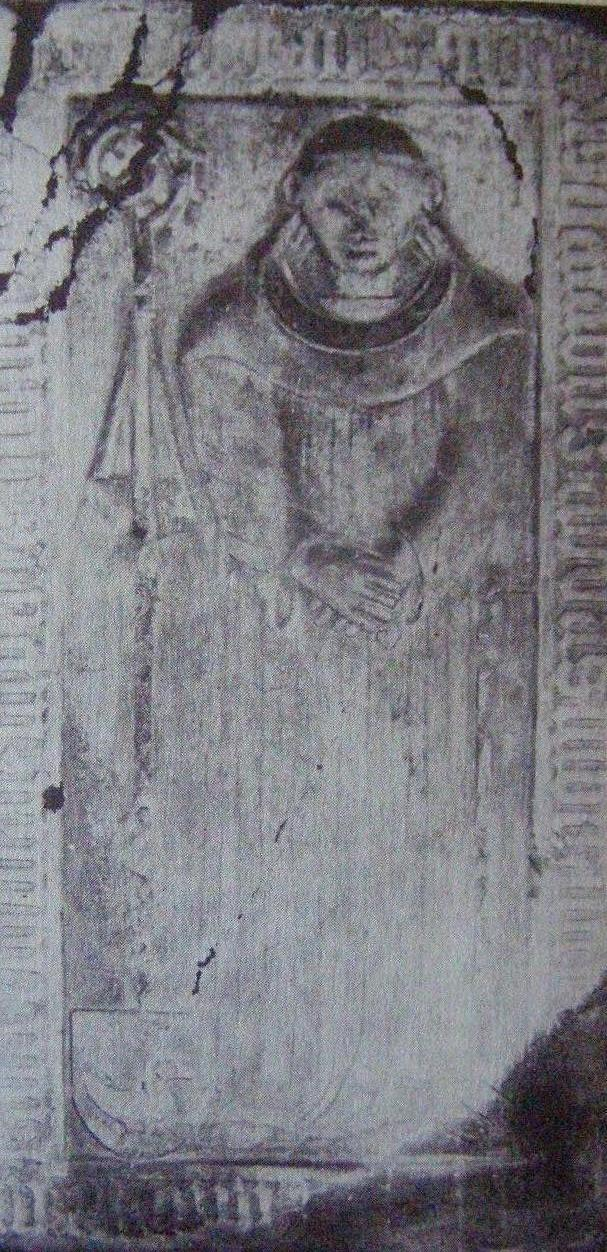 The tombstone of Abbot György Darabos († 1460)